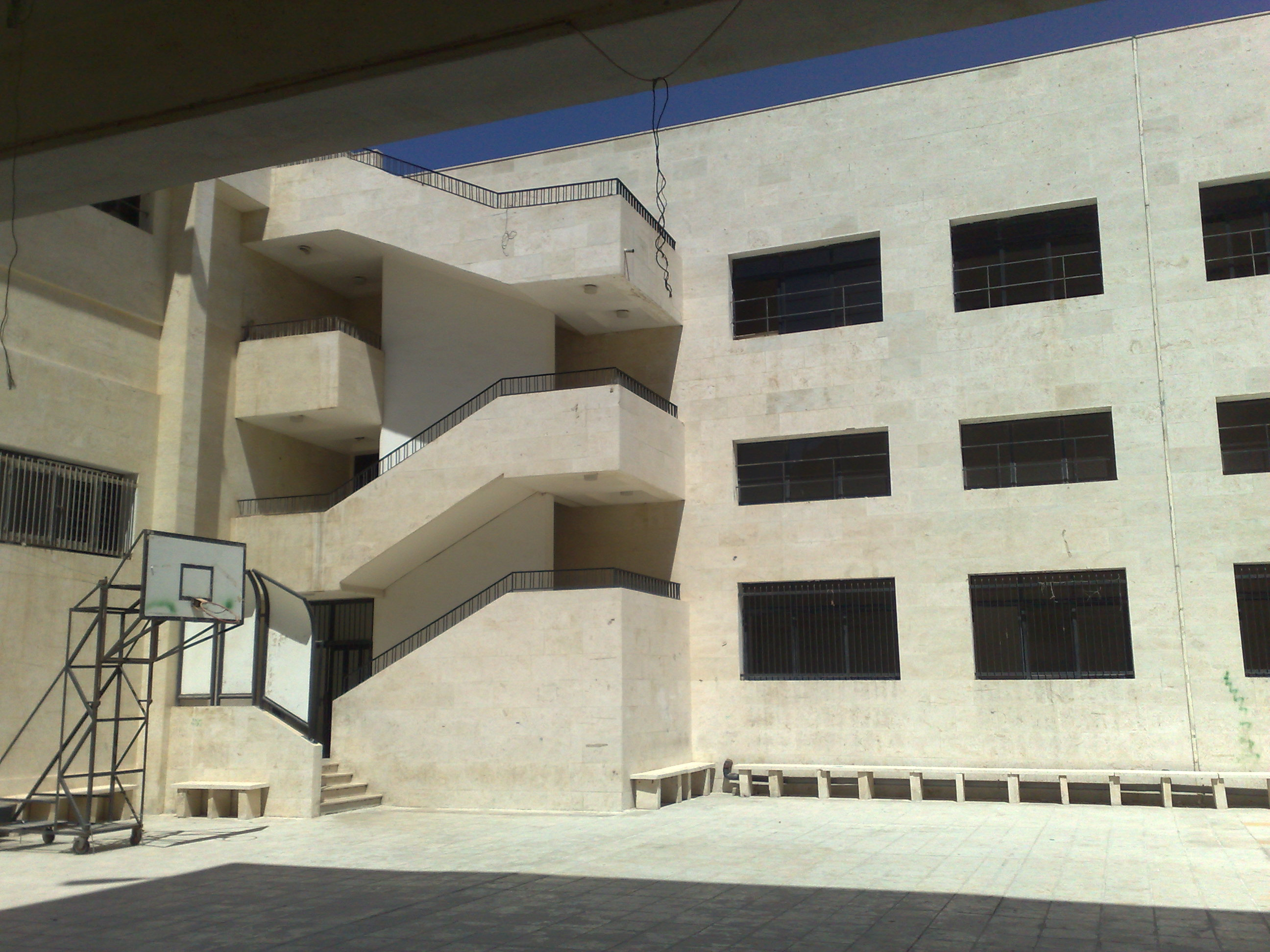 For the article New English School (Jordan).